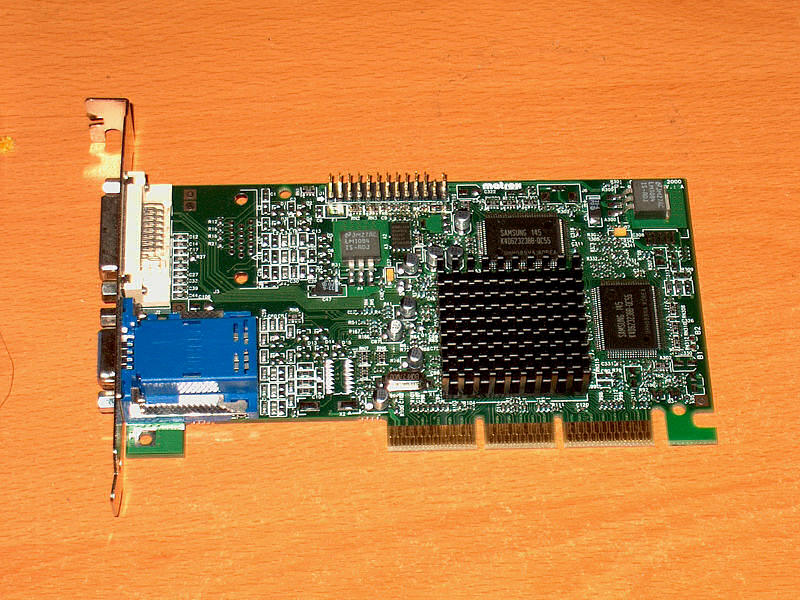 Matrox Millennium G450 32Мб DVI